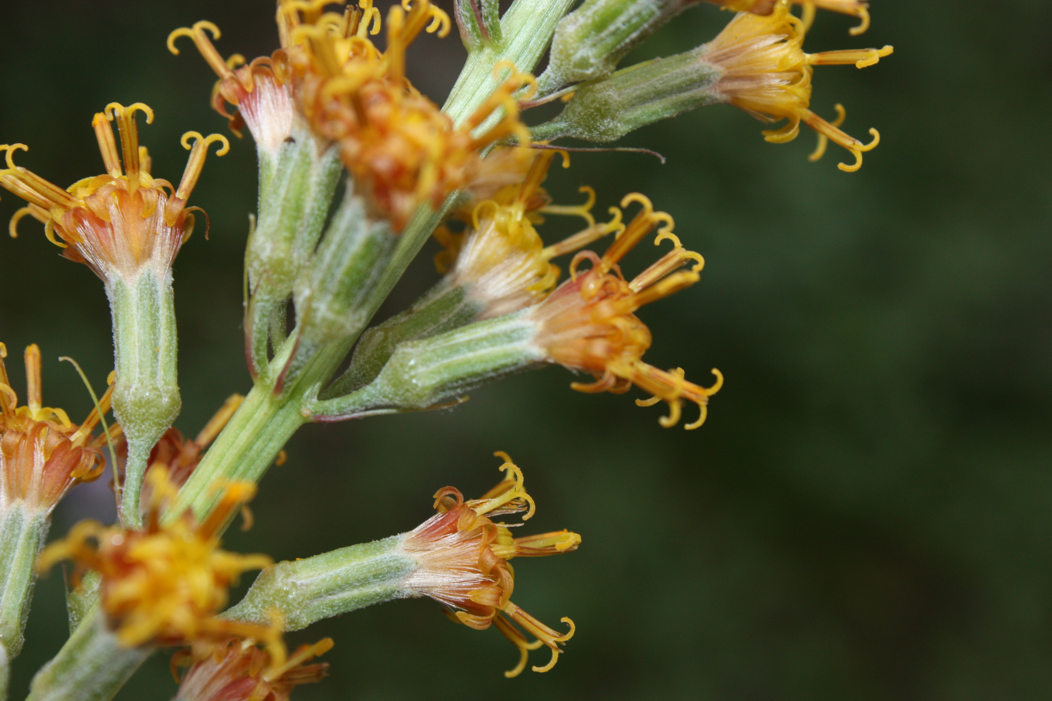 False Silverback, Rainiera, Tongue Leaved Luina